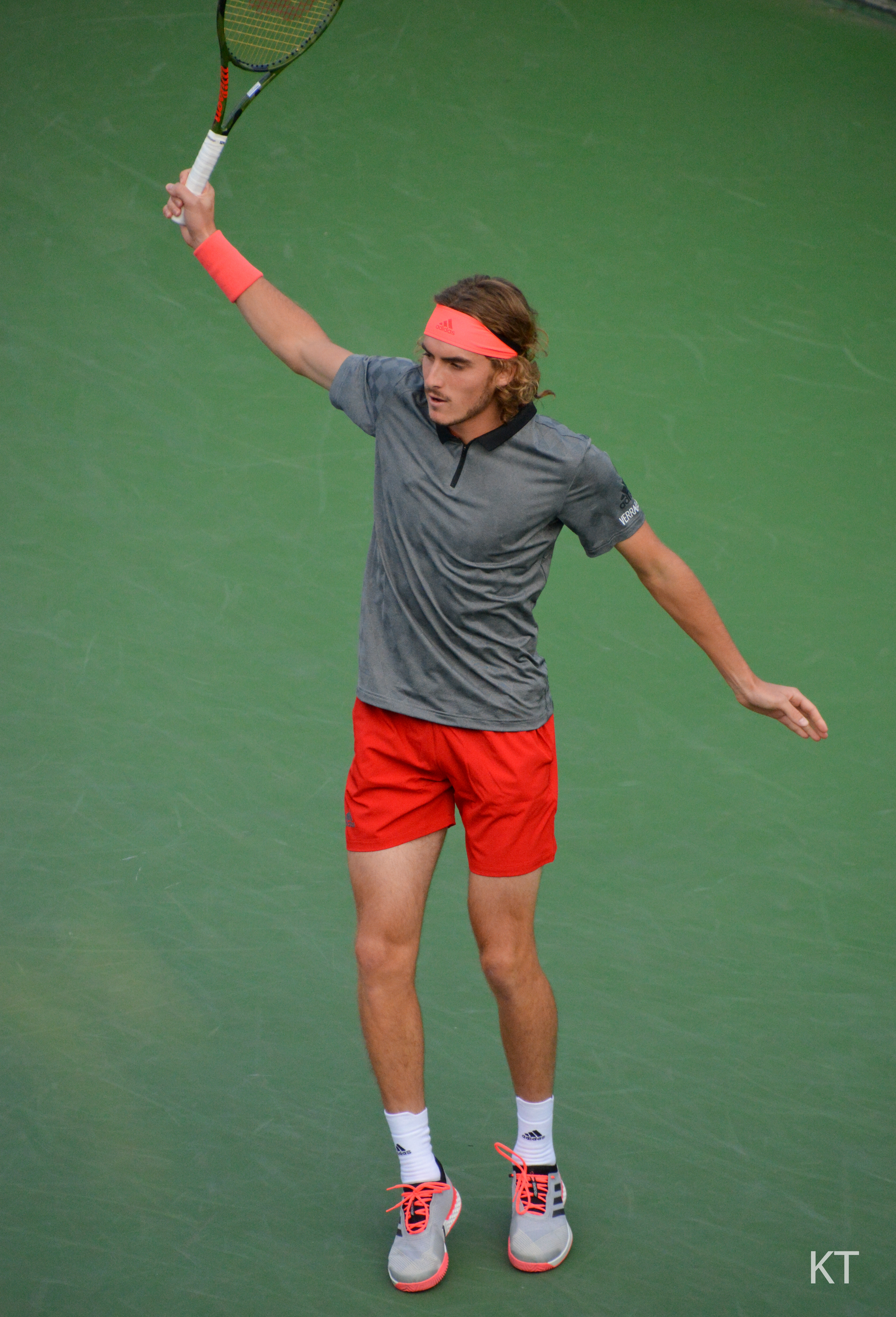 Day 1 of US Open 2018 – Monday, 27th August 2018.